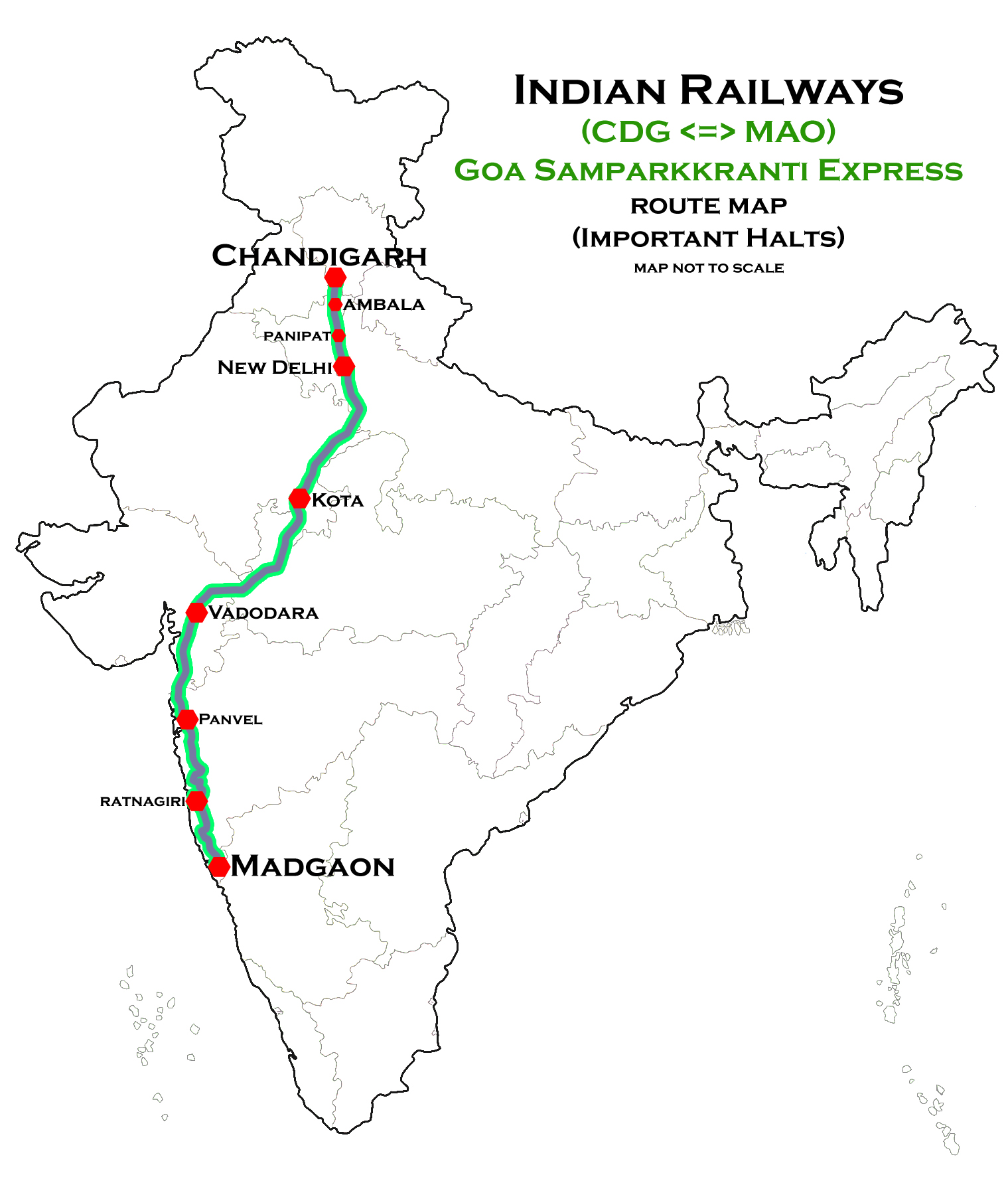 Goa Samparkkranti Express (CDG - MAO) Route map